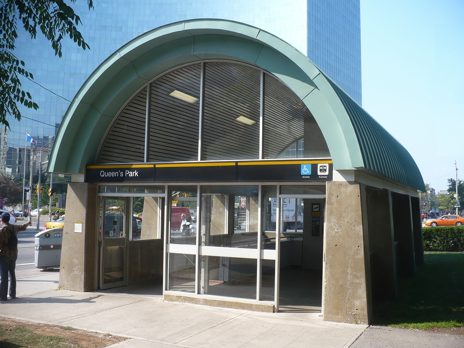 Entrance to Queen's Park subway station in Toronto. This entance is located at the northeast corner of College St and University Ave/Queens Park